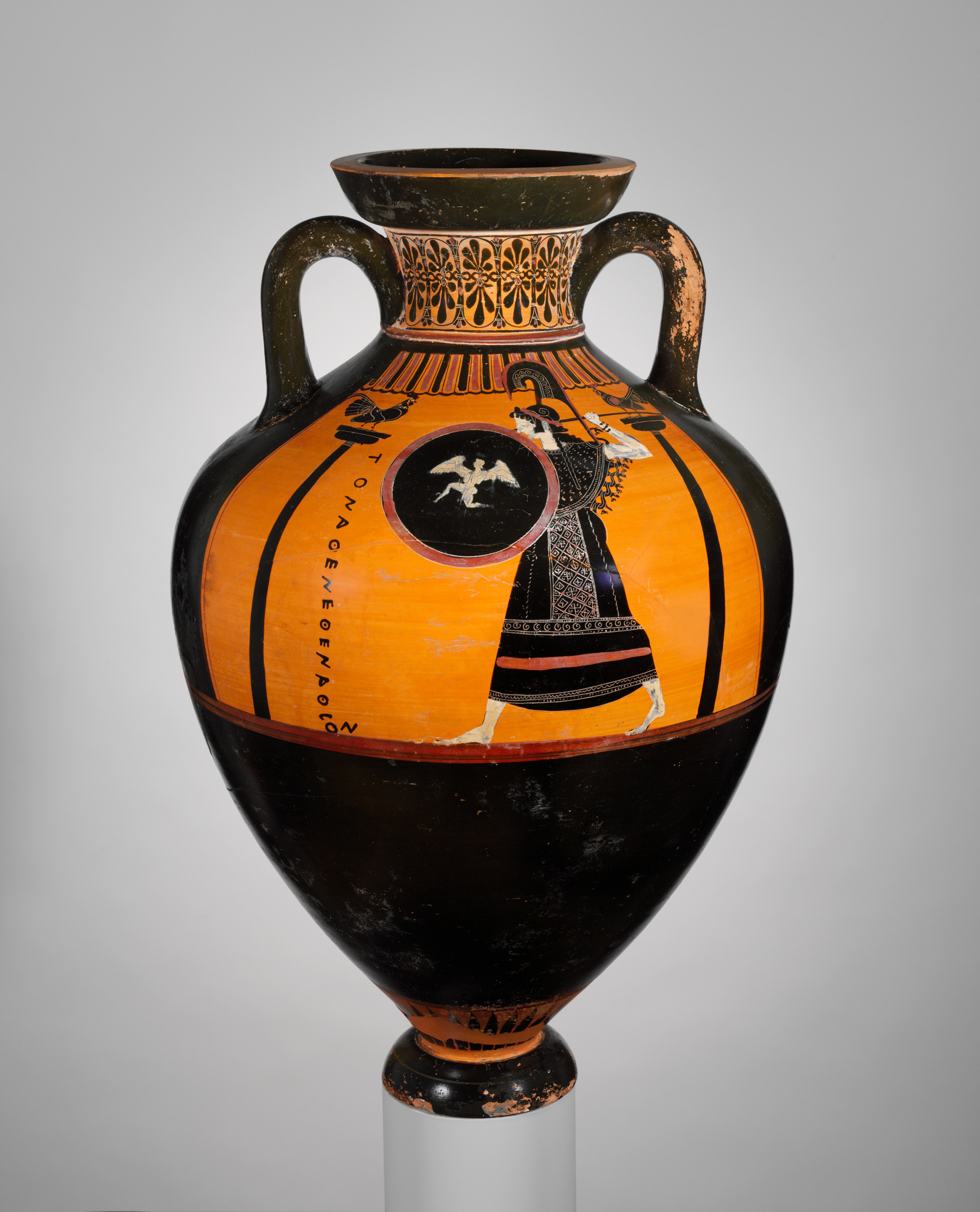 Greek, Attic; Panathenaic prize amphora; Vases